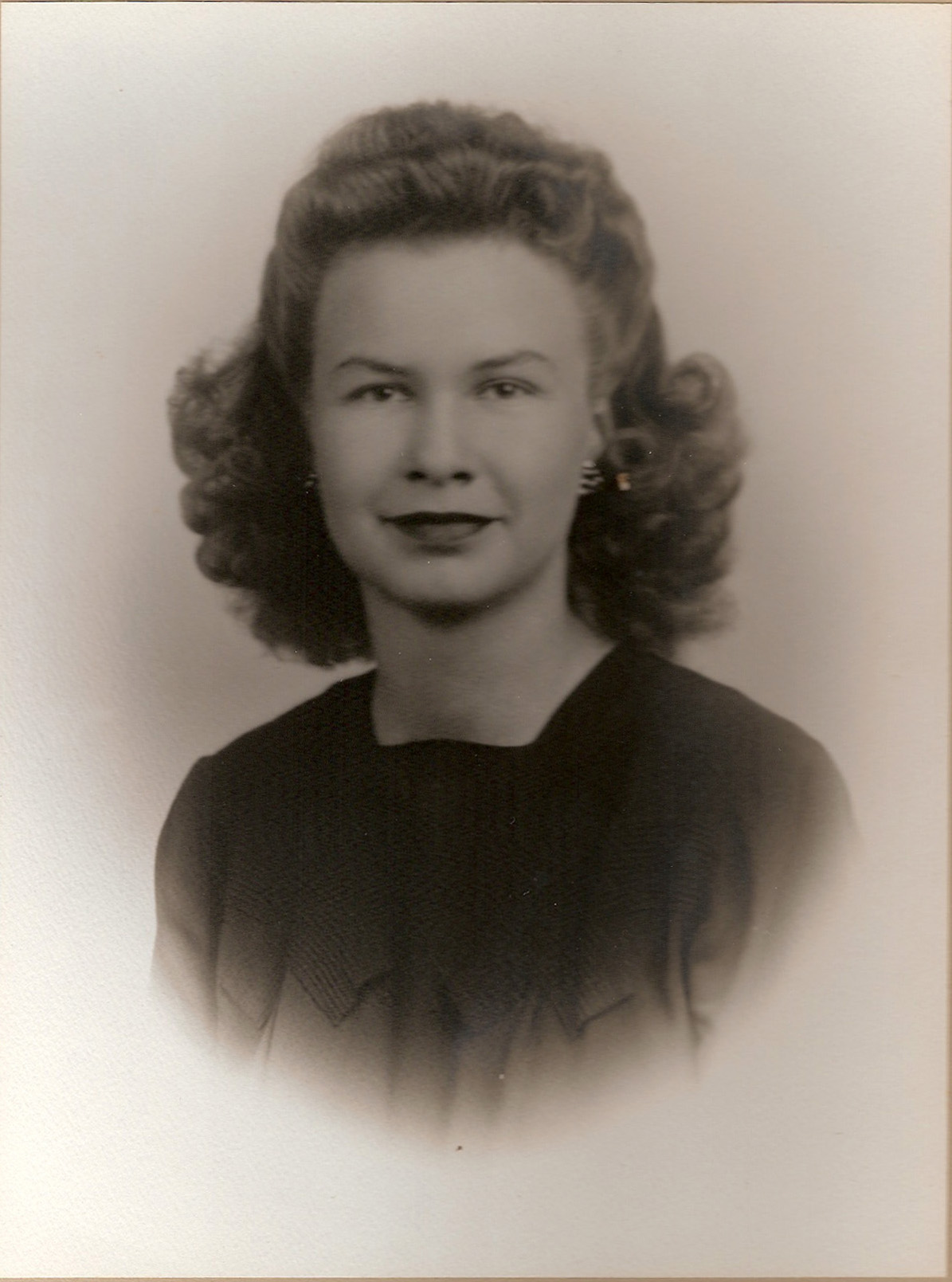 This is a photograph of Jane Bronson Cartano in her early life.